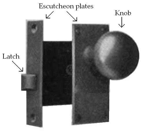 Image of a the parts of a traditional door knob.